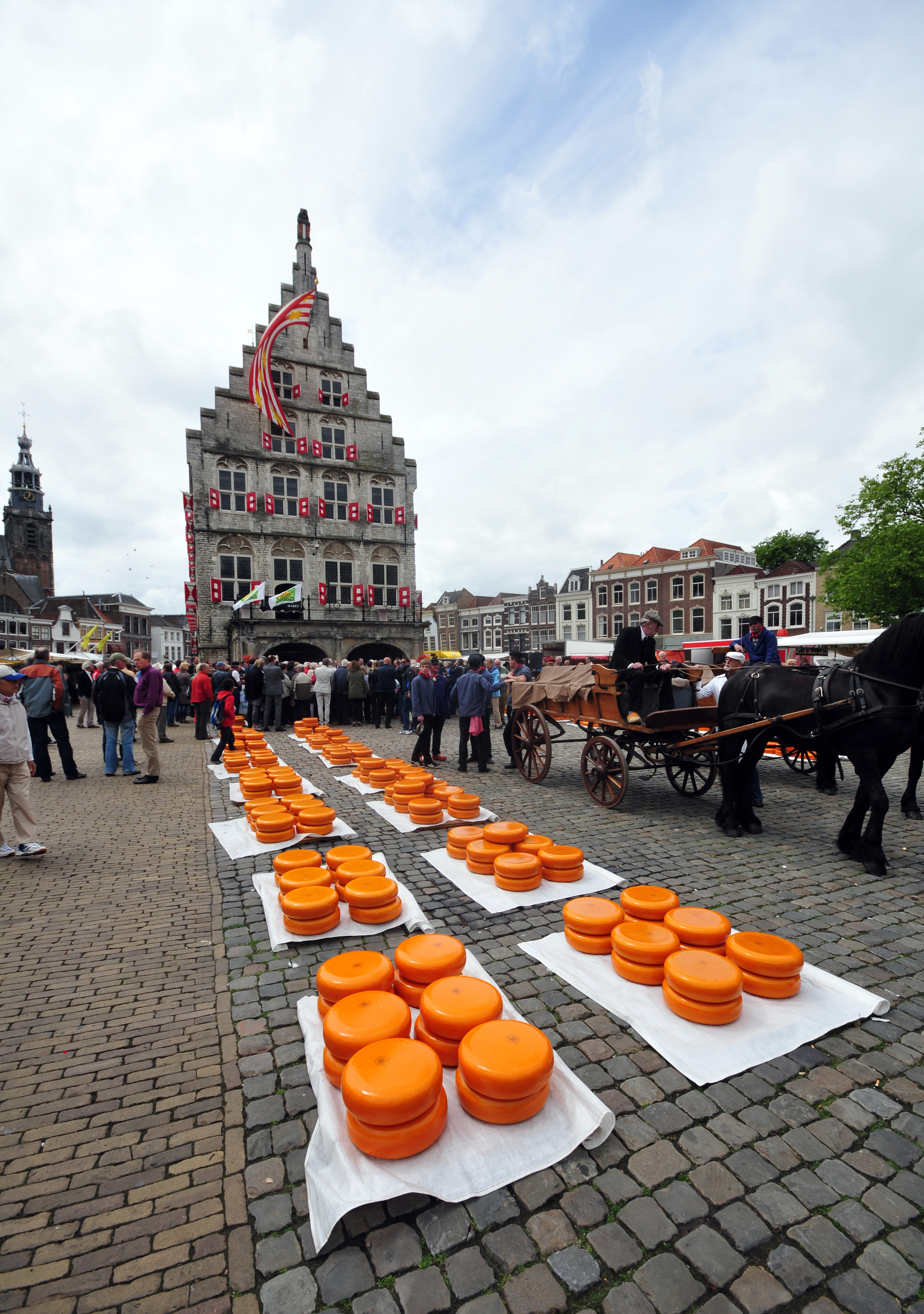 Cheese market in Gouda, cheese and a brig with Friesian horses for transporting the cheese